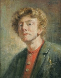 Zelfportret